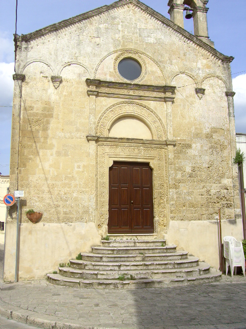 Church S.Maria in Platea